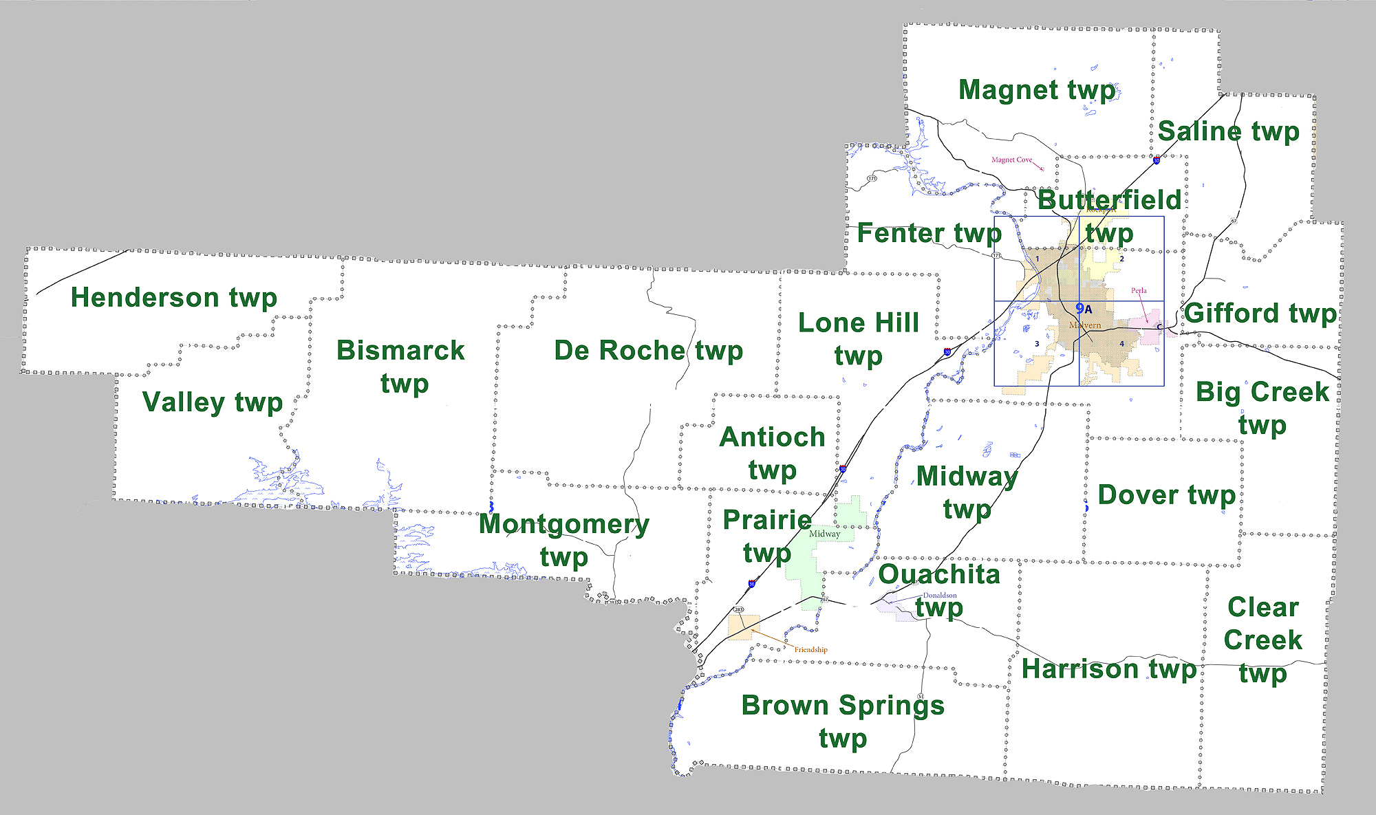 Large map showing townships in Hot Spring County, Arkansas. Modified from US census map (for 2010 census) for Hot Spring County, Arkansas